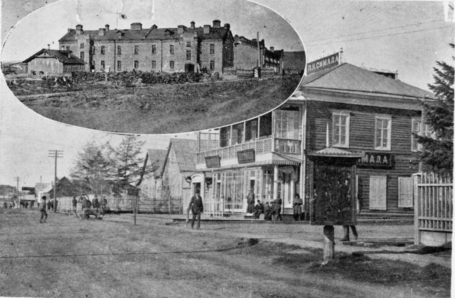 Headquarter of 3rd battalion, 2nd regiment of 14th IJA division during the Nikolayevsk Incident in Nikolayevsk-on-Amur